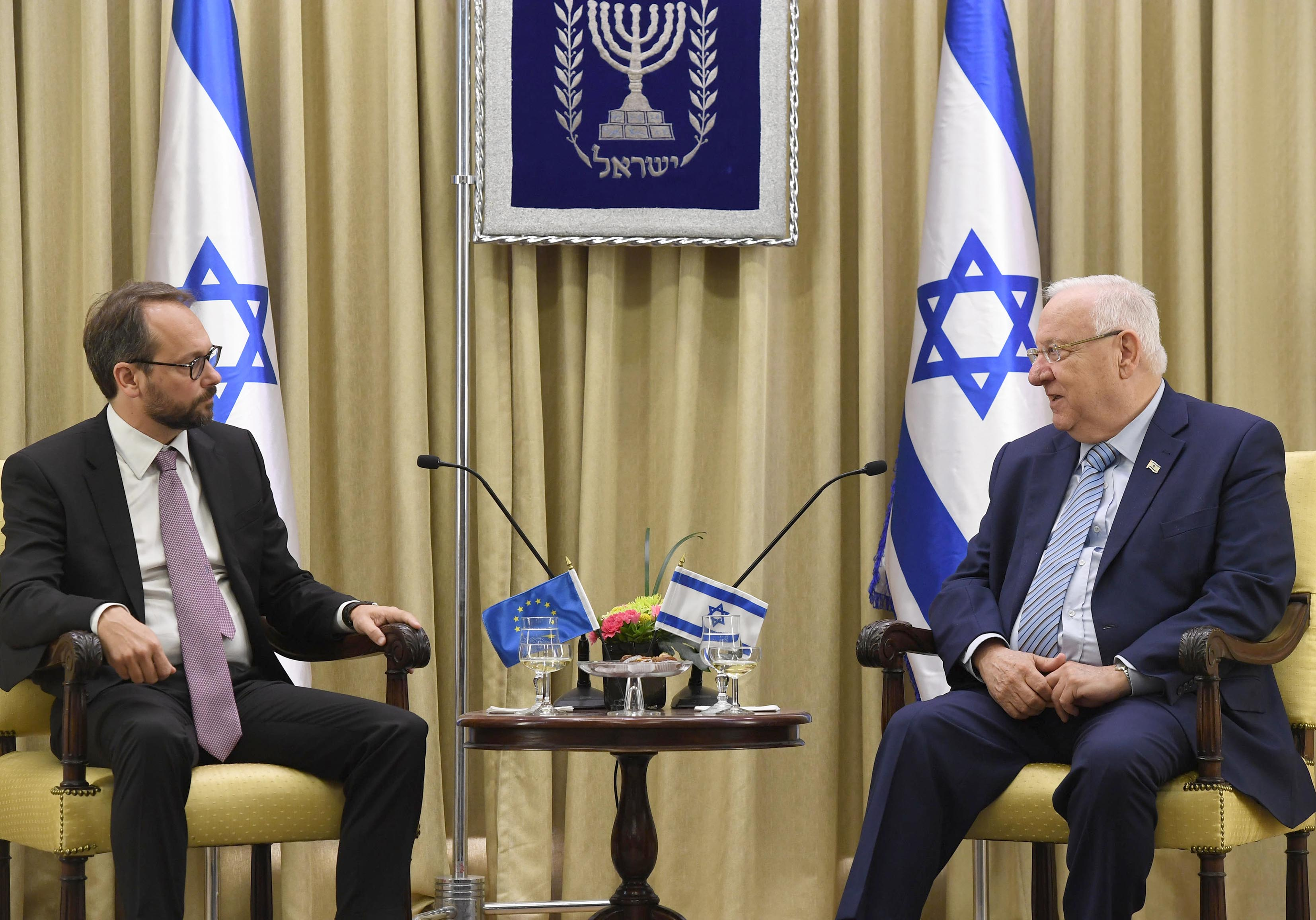 Reuven Rivlin receives the credential of the new ambassador from the European Union, October 2017 The President of the State of Israel, Reuven Rivlin, receives the credentials of the new ambassadors from Italy, Denmark, the European Union and Nigeria - upon their entry as ambassadors of their respective countries in Israel and afterwards met with the Romanian Foreign Minister who visited Israel. Monday, Tuesday, October 23, 2017.